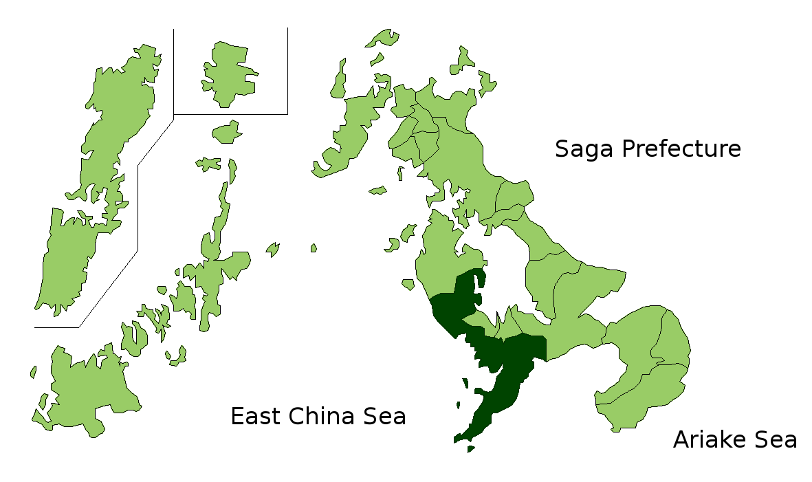 Map of Nagasaki Prefecture highlighting Nagasaki city. Borders of map as of July, 2006. (blank map used from [1]) See also Image:NagasakiMapCurrent.png.